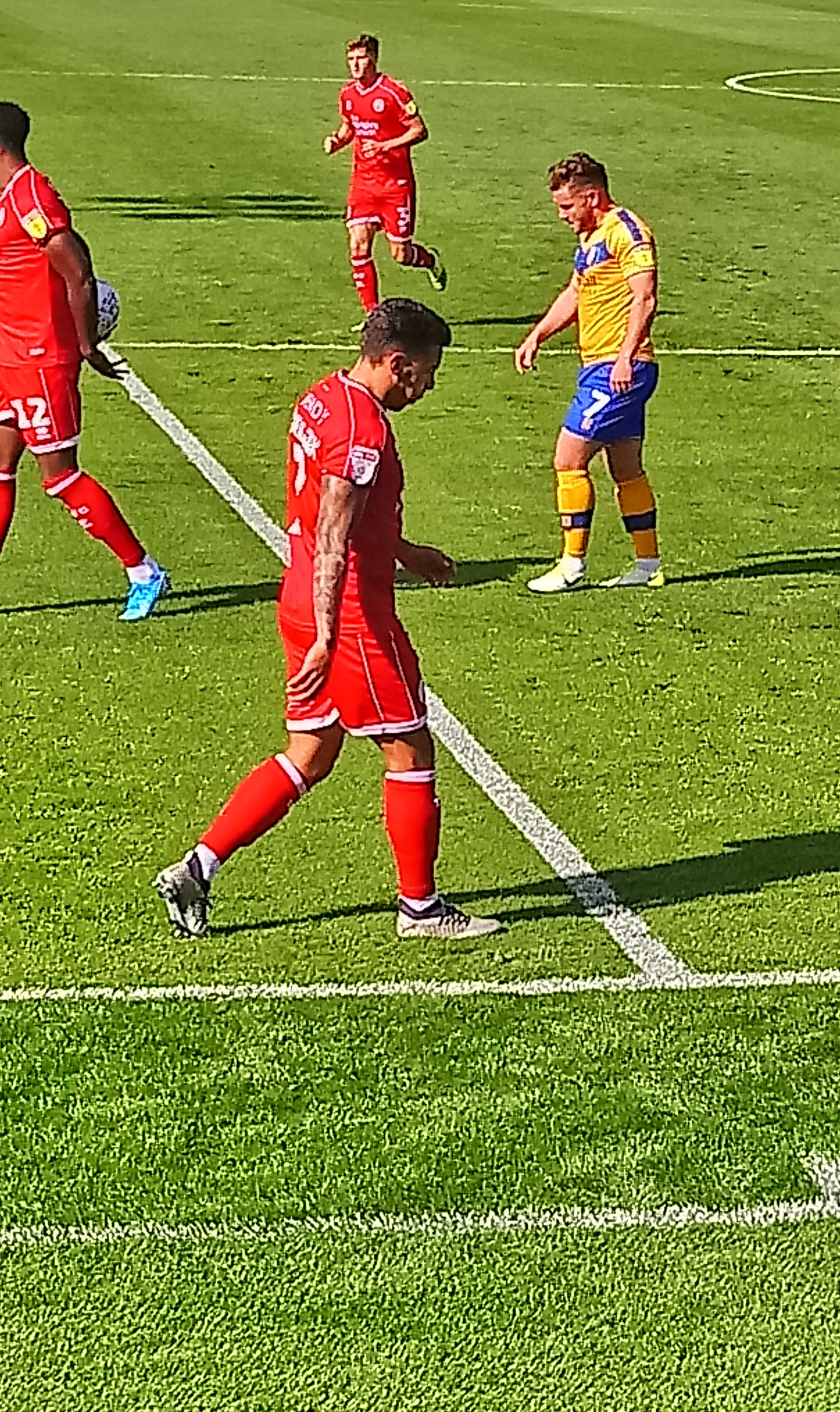 Reece Grego-Cox playing for Crawley Town F.C. September 2019